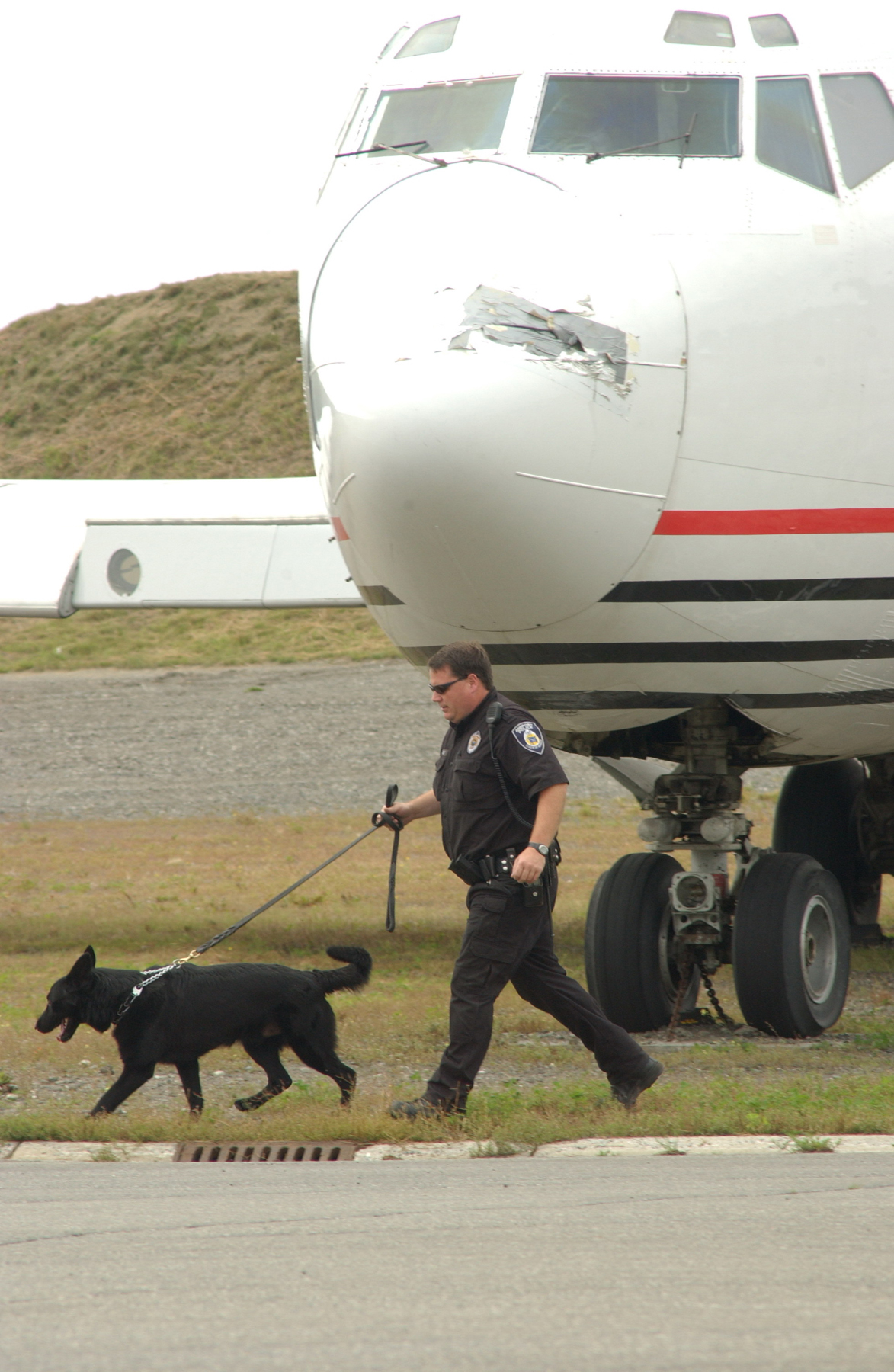 Anchorage, Alaska (Aug. 15, 2005) - A member of the Transportation Security Administration (TSA) conducts a security search for unidentified objects during an alert response mission during Alaska Shield/Northern Edge in Anchorage, Alaska. Alaska Shield/Northern Edge '05 is the largest homeland defense/security exercise ever conducted in Alaska. This exercise is the first opportunity within the state to integrate local, state and federal government response to a series of simulated emergencies including natural disasters, terrorist attacks and mass casualty scenarios. U.S. Air Force photo by Airman 1st Class Anthony Nelson Jr. (RELEASED)